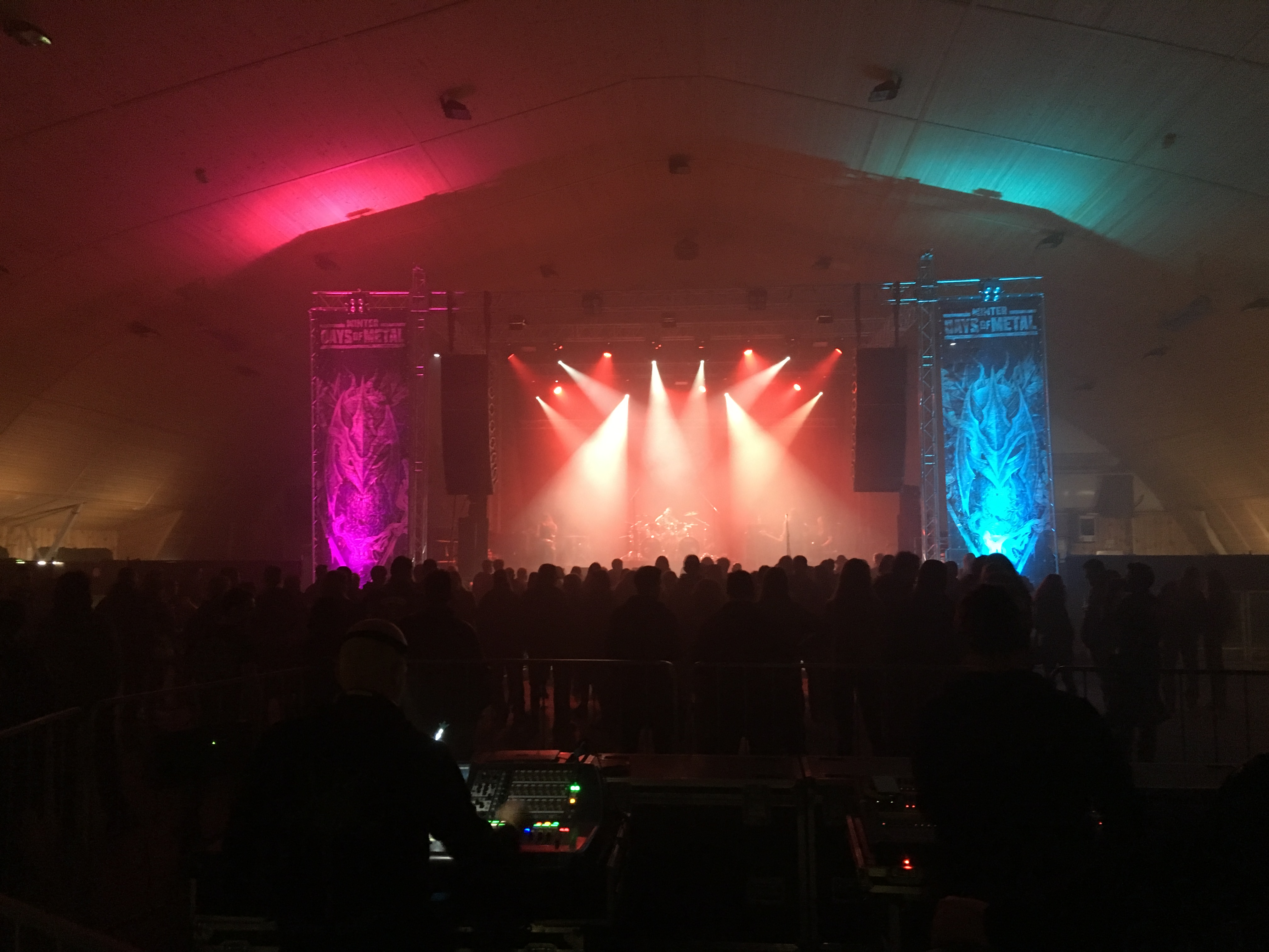 Dvorana Danica, a venue that hosts winter metal festival Winter Days of Metal in Bohinjska Bistrica, Slovenia.